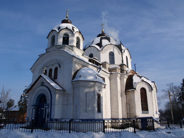 Luga Kazan Cathedral. Winter view.